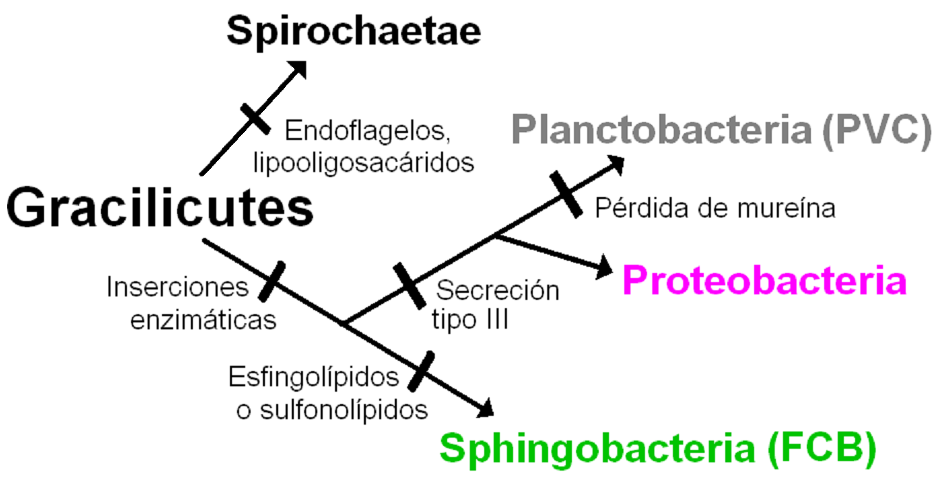 The rooted tree of Gracilicutes